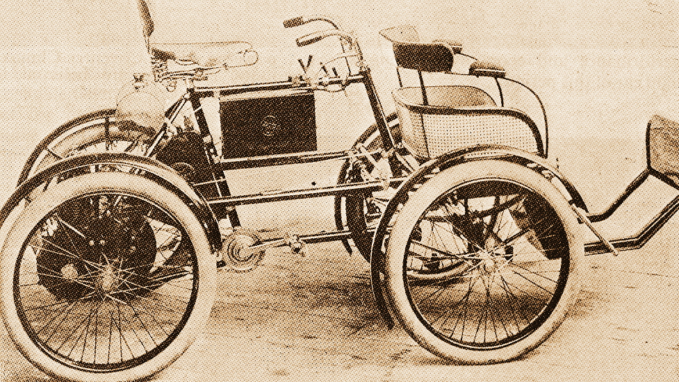 1900 Royal Enfield Quad